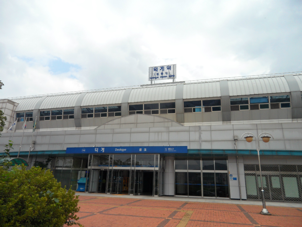 Deokgye station (Yangju city)